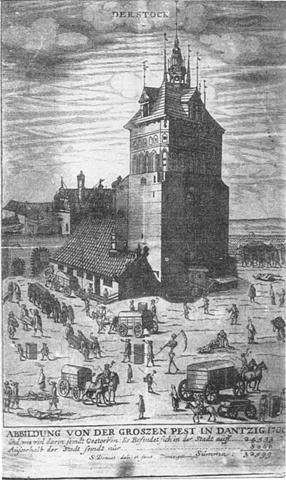 Samuel Don(n)et: "Abbildung von der großen Pest in Dantzig 1709" [English translation: Illustration of the Great Plague in Danzig 1709], woodcut (cf Th. Persson: Pesten i Blekinge, Karlskrona: Blekinge Museum 2011, URL: retrieved 2012, p. 4, quote: "Abbildung von der groszen Pest in Dantzig 1709. Träsnitt av Samuel Donnet" [English translation: Illustration of the Great Plague in Danzig 1709. Woodcut by Samuel Donnet]annotation below: Number of plague-inflicted deaths in Danzig and the adjacent countryside